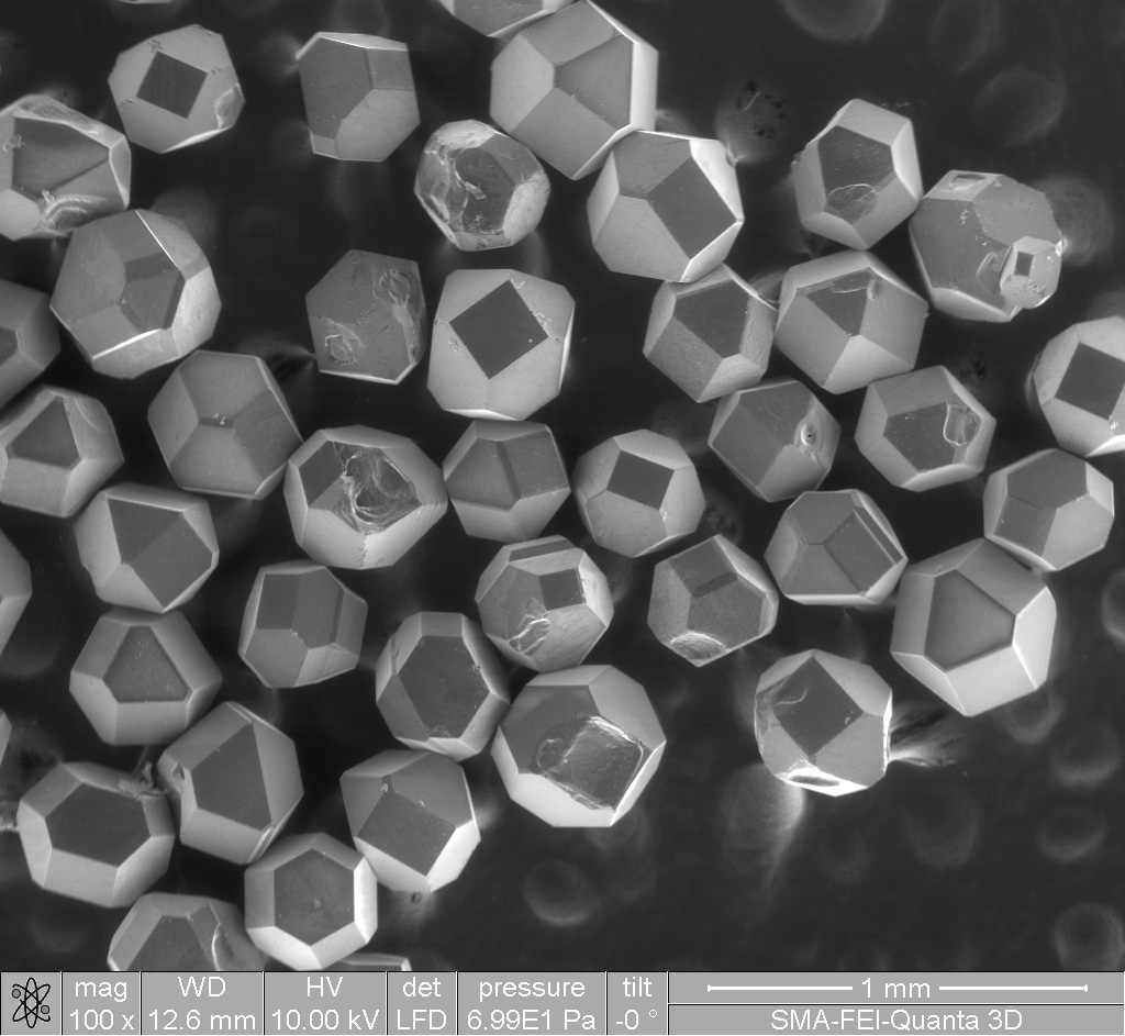 Synthetic diamonds obtained in the Laboratory of the High-Temperature Materials, Moscow Steel and Alloys Institute (QUANTA-3D scanning electron microscope)